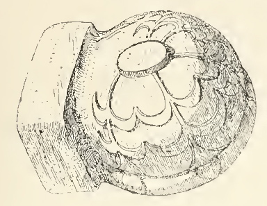 artifact found in Beit Nuba